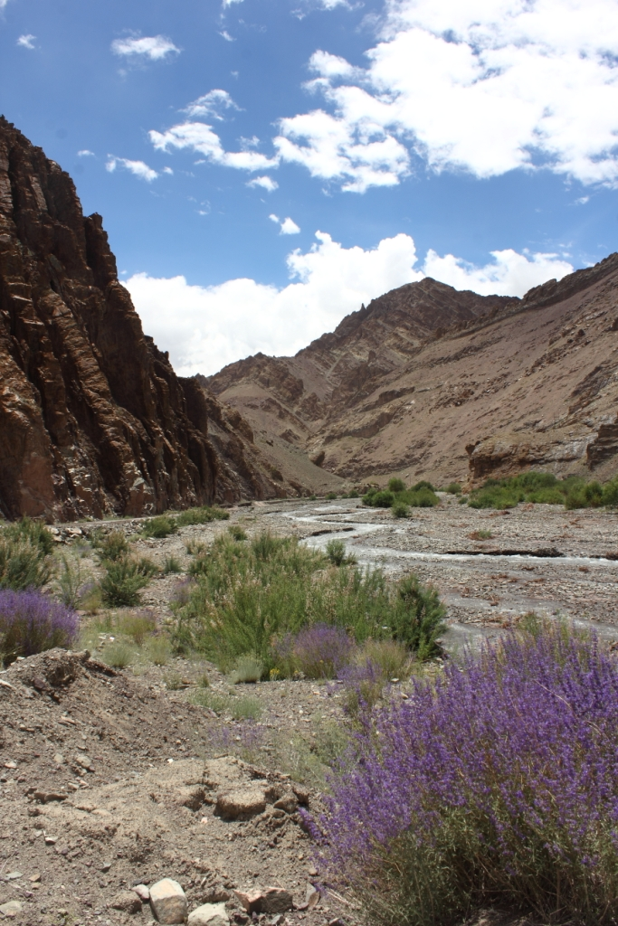 Perovskia atriplicifolia, also called Himalayan Lavender along Sumdo Nala in Hemis National Park